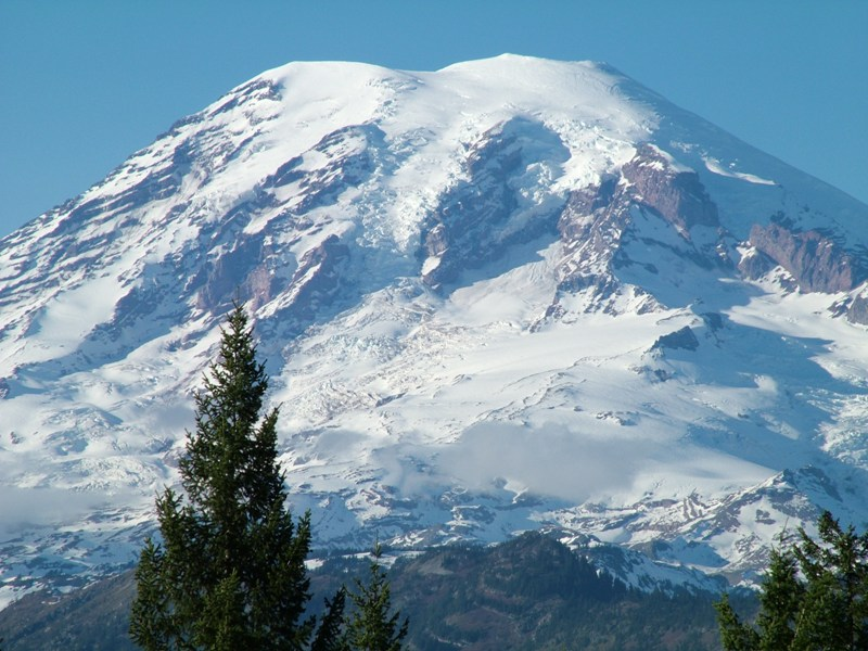 Southeast face of Mount Rainier (14410 feet) with Nisqually Glacier descending from the summit ice cap near the center. Nisqually Cleaver is the ridge to its right. The Cowlitz Glacier (right) begins at 11000' below Gibralter Rock (12660'). Ingraham Glacier descends from the summit right of Gibraltar Rock along the skyline. Camp Muir (10100') is at the base of the Cowlitz Cleaver, left of Cowlitz Glacier and in front of Gibraltar Rock. From Stevens Canyon Road.